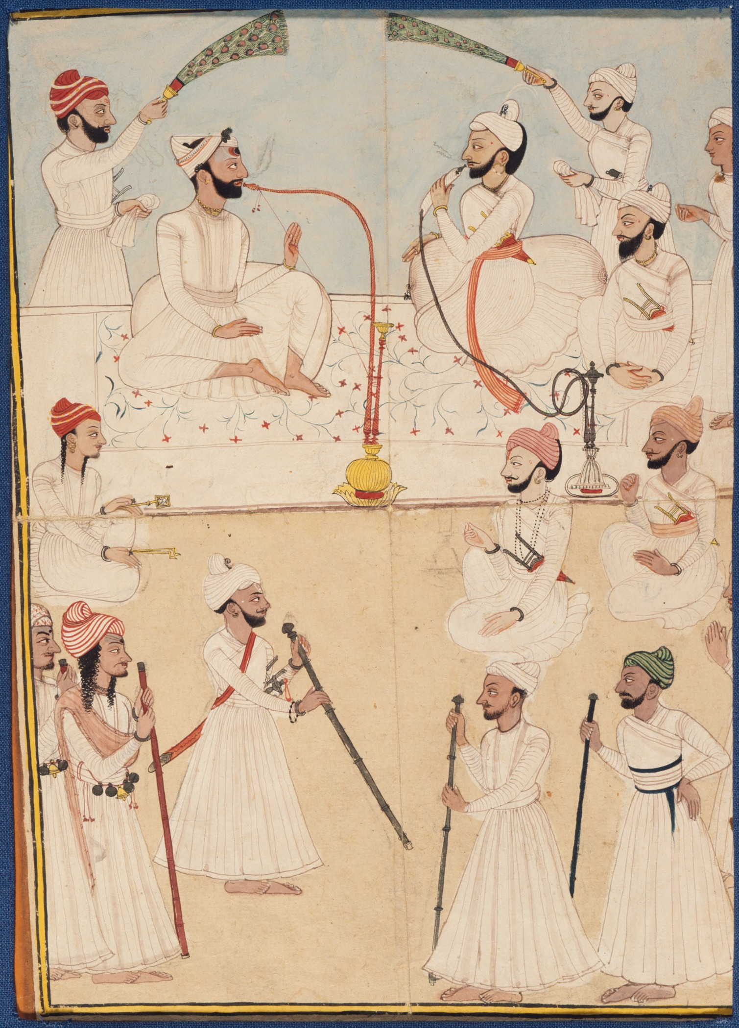 India, Himachal Pradesh, Mandi, circa 1772-1773 Drawings; watercolors Opaque watercolor and ink on paper Image: 13 7/8 x 9 7/8 in. (35.24 x 25.08 cm); Sheet: 15 3/8 x 11 3/8 in. (39.05 x 28.89 cm) From the Nasli and Alice Heeramaneck Collection, Museum Associates Purchase (M.74.5.10) South and Southeast Asian Art